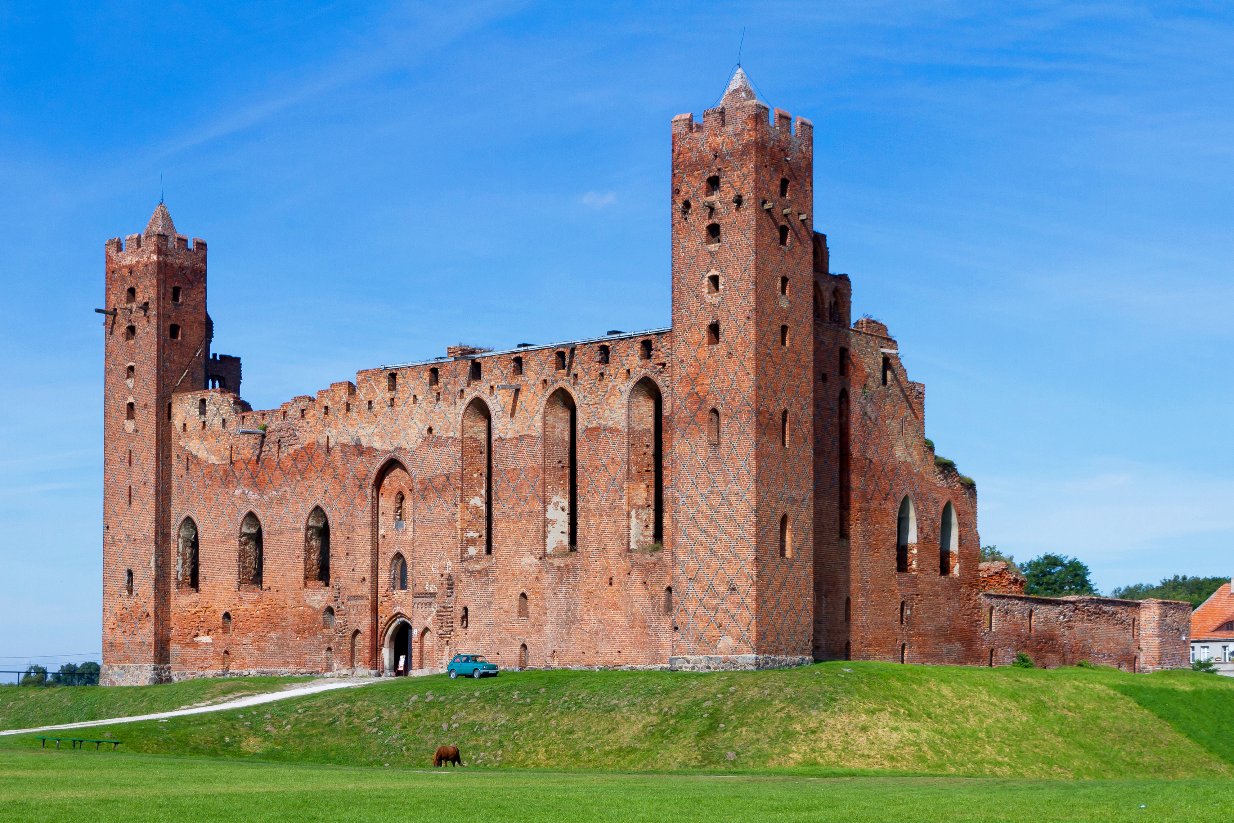 Gothic castle in Radzyn Chelminski